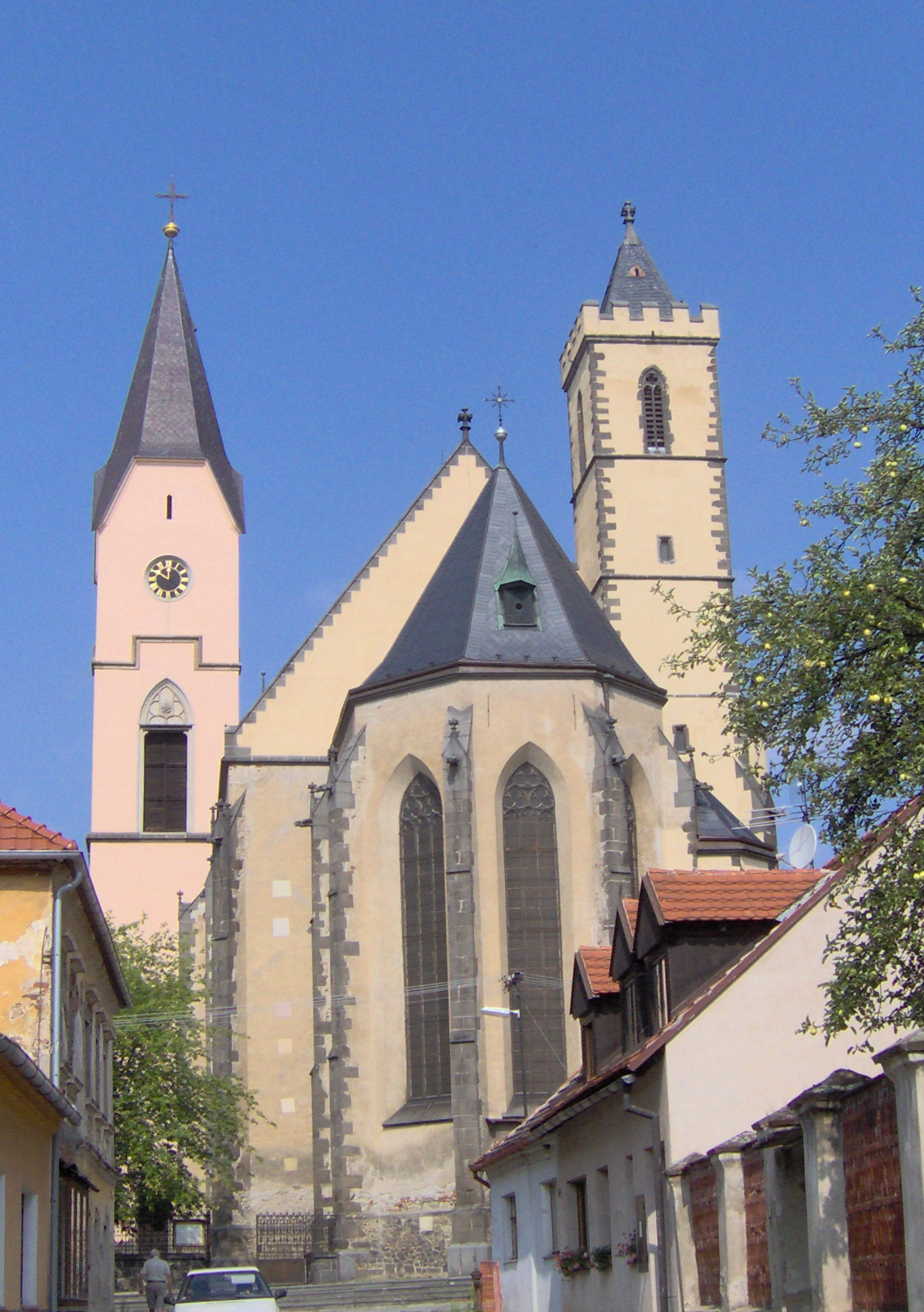 Church of the Assumption in Bavorov, Strakonice District, Czech republic